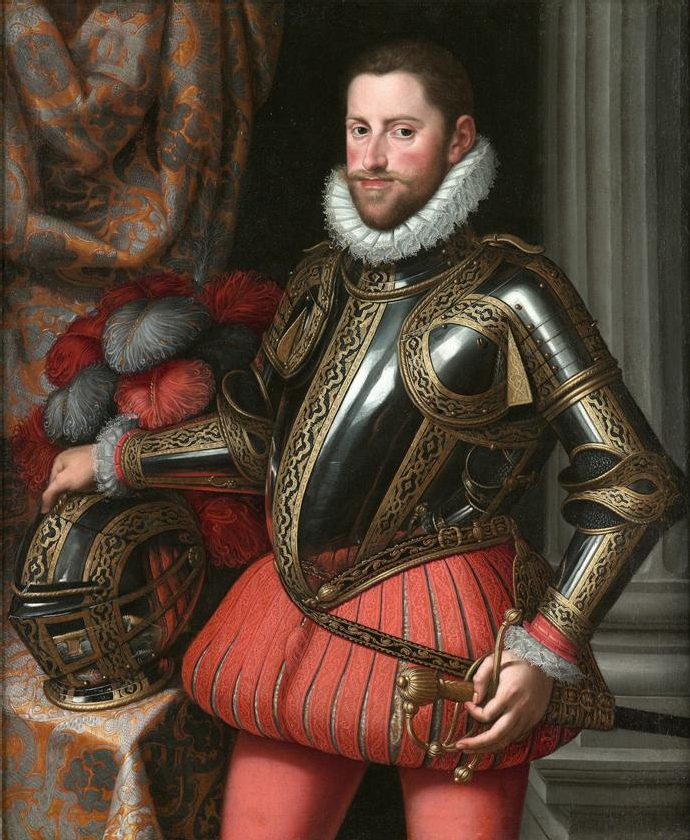 Description This painting, long thought to be a portrait of Rudolf II (1552-1612) by Alonso Sánchez Coello, was identified as a portrait of Rudolf's younger brother Ernst (1553-1595) in the early 1960s (G. Heinz, 'Studien zür Porträtmalerei,' p. 114). It was one of three portraits of the sons of Maximilian II painted by Martino Rota in Vienna around 1580. The portrait of Maximilian III (1558-1618) is now in Vienna (Kunsthistorisches Museum) and the portrait of Rudolf II (1552-1612) is thought to be lost. DaCosta Kaufmann has described Portrait of Archduke Ernst as one of Rota's finest works and it certainly displays both the artist's talent for portraiture and his facility with the elements that make up court imagery (T. DaCosta Kauffman, op. cit., Chicago, 1988, p. 29). Indeed, Rota's training as a printmaker can be seen in his schematic treatment of fabrics and his focus on the engraved portions of Ernst's armor. The dating of the portrait to around 1580 on stylistic grounds is supported by the fact that Ernst was made regent of Inner Austria during that year and a portrait of this type would have been appropriate to commemorate his appointment. Three bust length portraits of Rudolf II, Ernst, and Maximilian III by Rota, all in the Kunsthistorisches Museum, Vienna, are thought to be reduced versions of his three-quarter-length portraits.